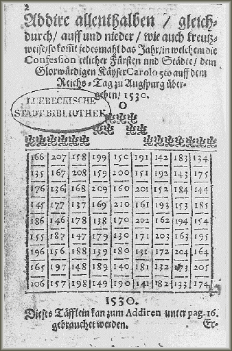 Magic square from an arithmetic book by Franz Brasser, probably the high German edition Hamburg 1693